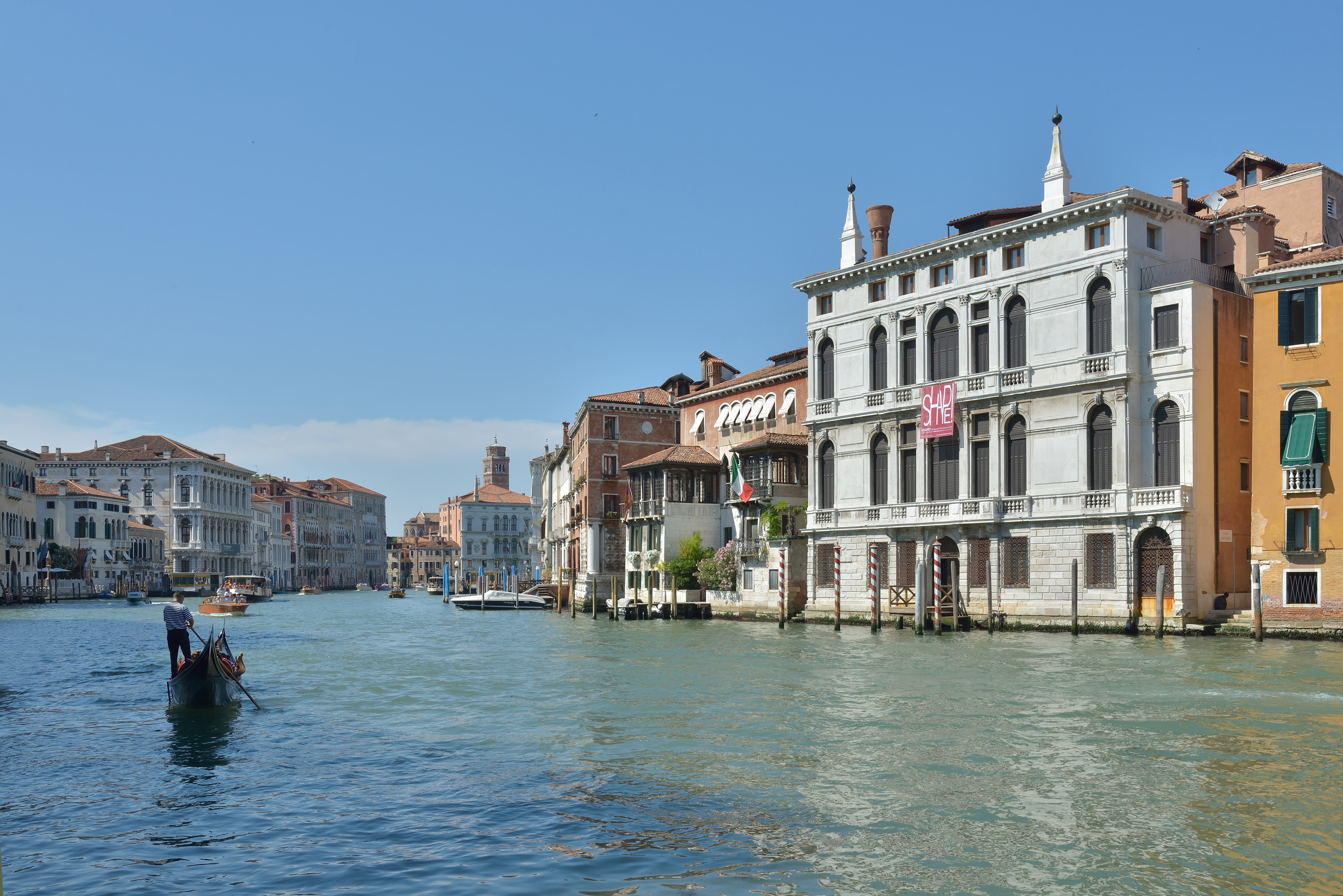 The Canal Grande with Palazzo Giustinian Lolin in Venice